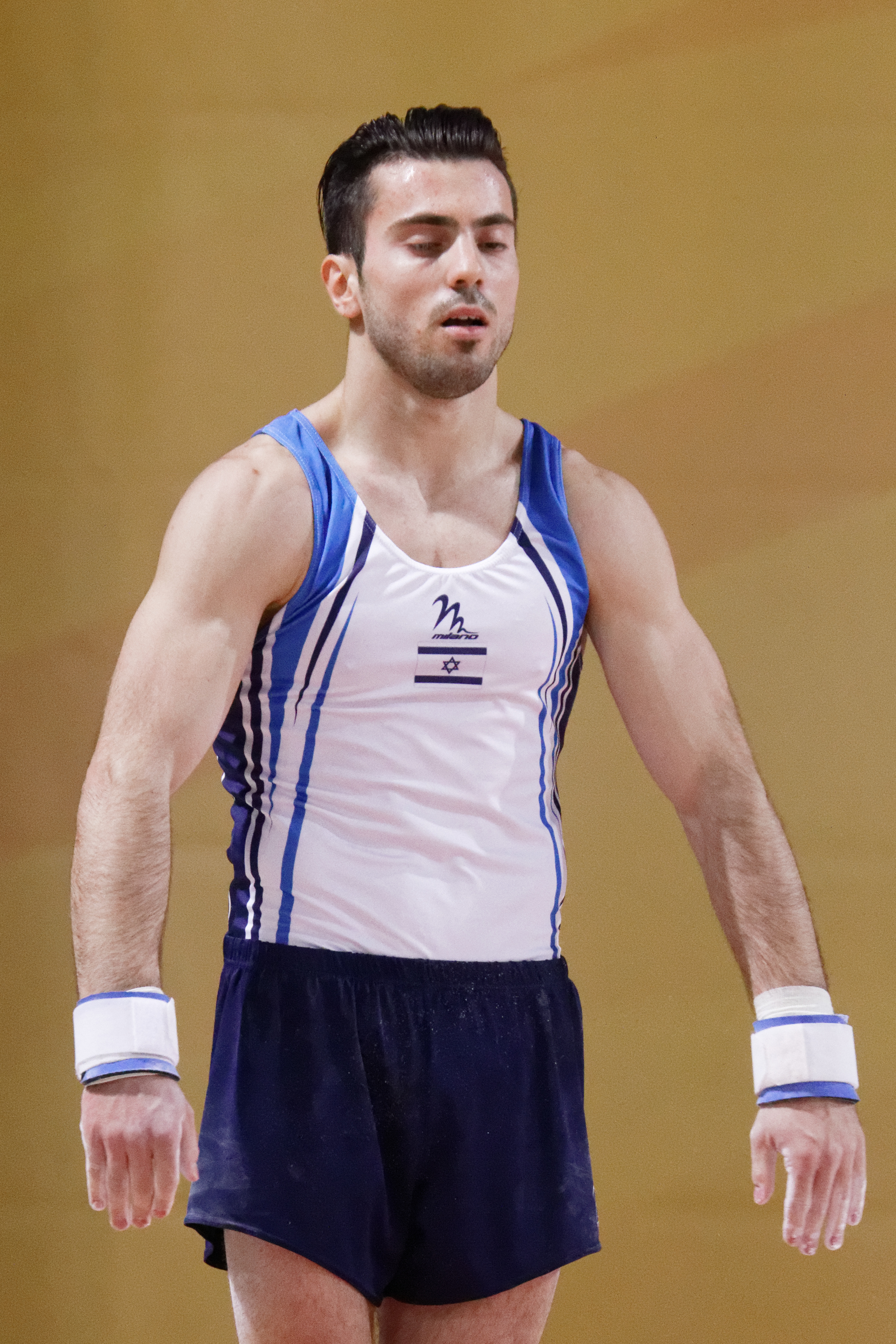 2015 European Artistic Gymnastics Championships. Men's Vault Final.